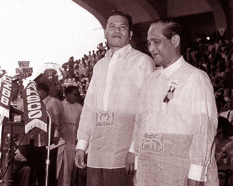 Incoming President and Vice President Ramon Magsaysay and Carlos P. Garcia during their inauguration at the Independence Grandstand (now Quirino Grandstand) on December 30, 1953